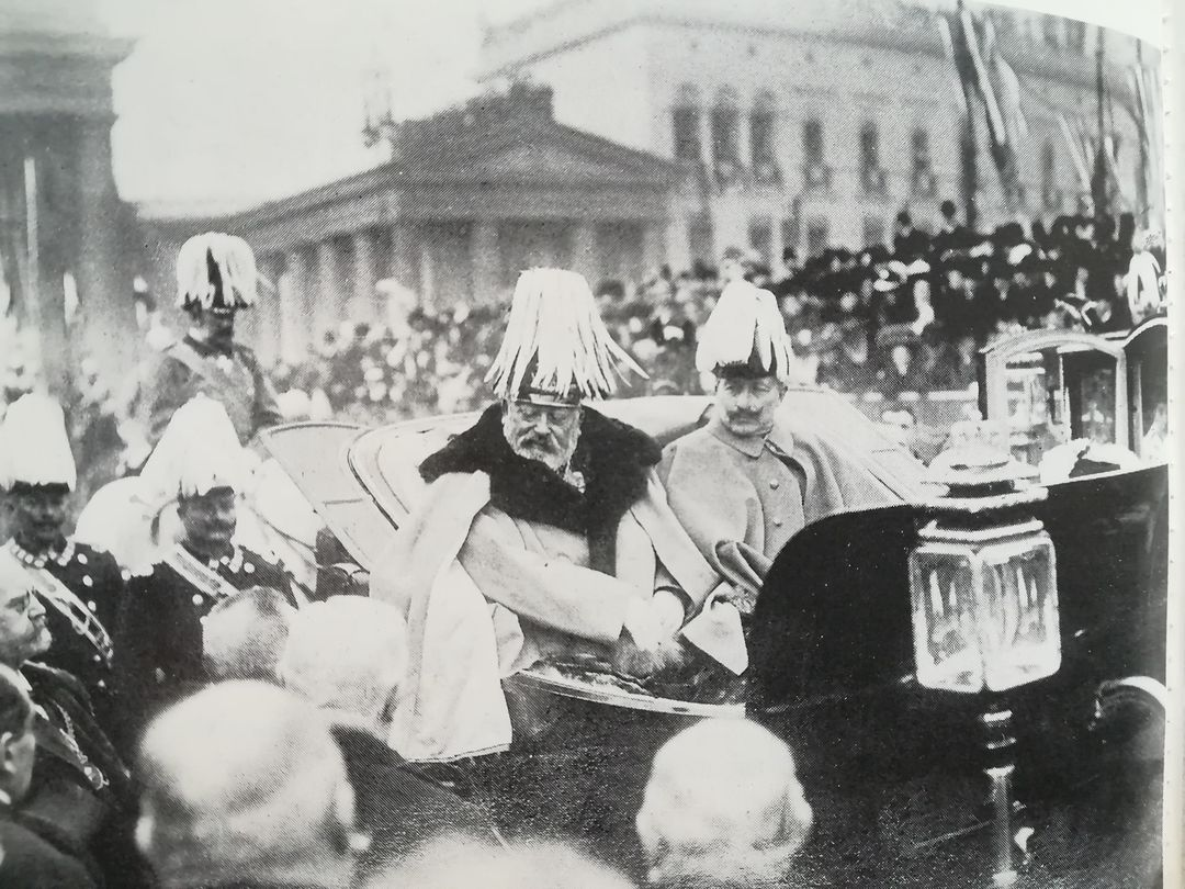 Edward VII and Wilhelm II in Berlin 1909.